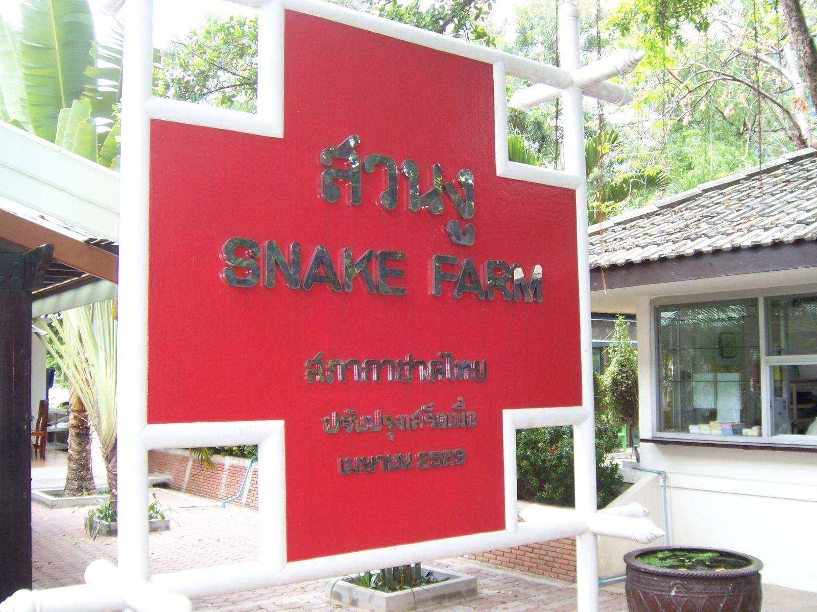 Queen Saovabha Memorial Institute and Snake Farm, Bangkok